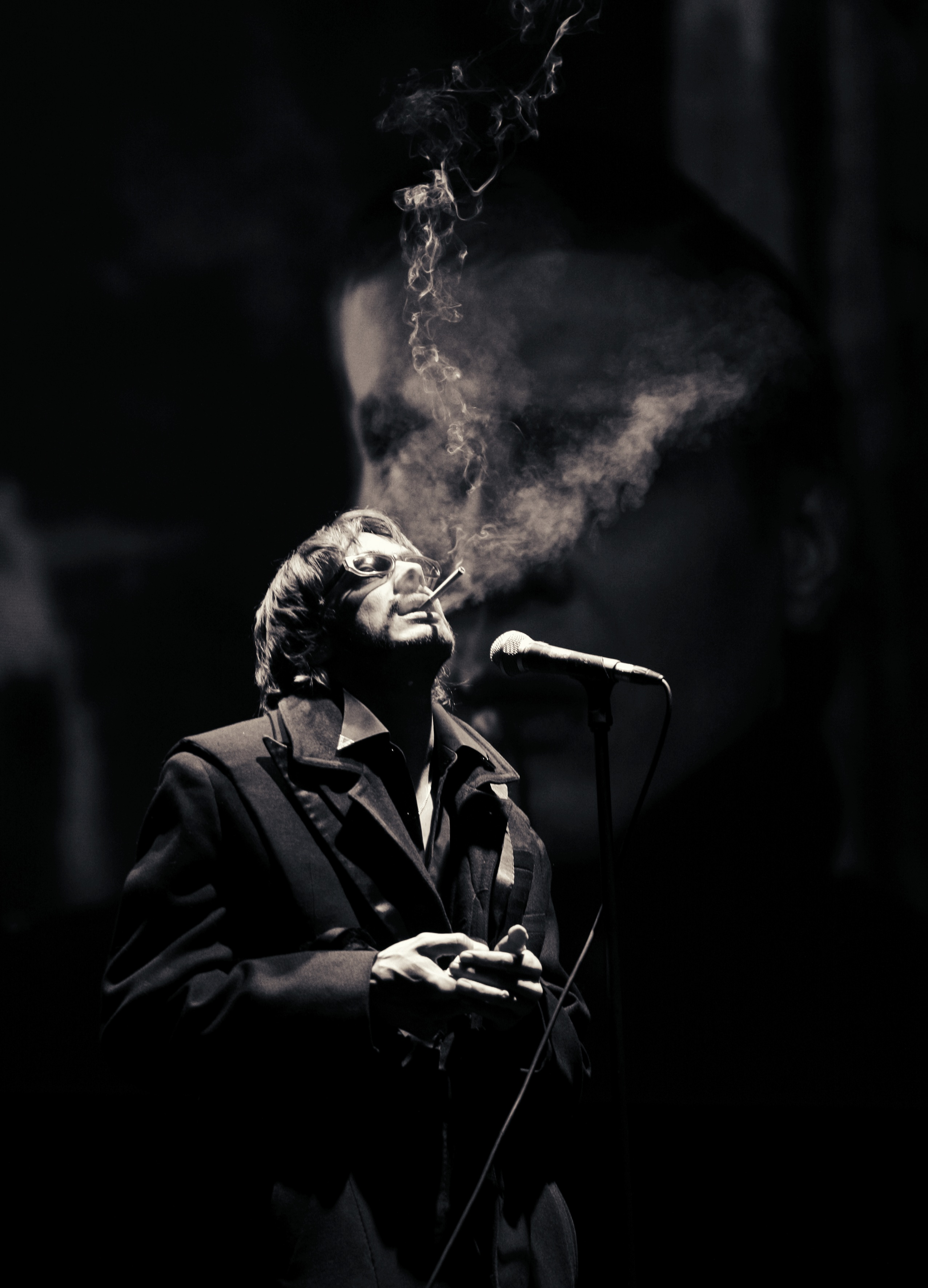 Von Krahl Theatre: The Magic Flute